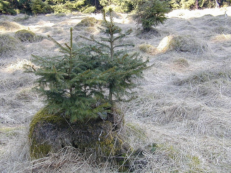 Nurse-log reproduction (spruce on spucestumps) Harz-Mountain, Germany.